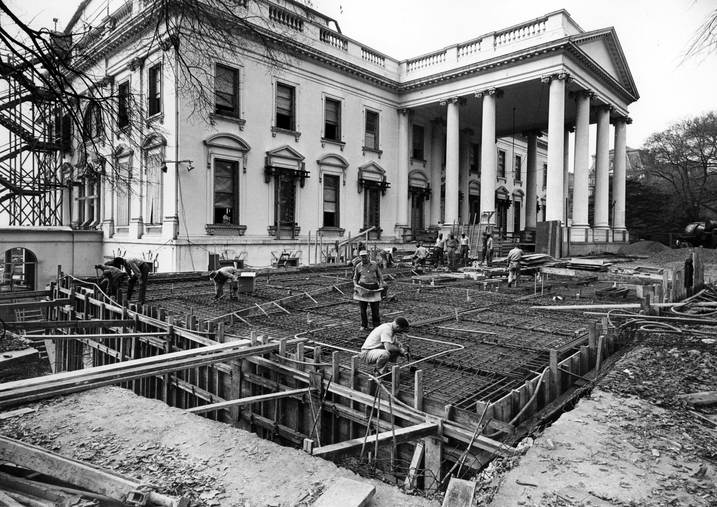 General notes: View of the northeast corner of the White House during renovation. Workmen are installing reinforced steel for laying of the concrete roofs of the Fan Room and other rooms in this area.